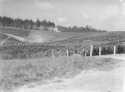 Grapes growing at the Te Kauwhata wine research station, c. 1939. A vineyard sprawls across the landscape in front of a hilltop line of shelter belts. The vineyard consists of many neat lines of grape vines. A dirt road can be seen in the foreground.